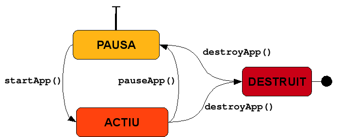 Life Cycle of a MIDlet